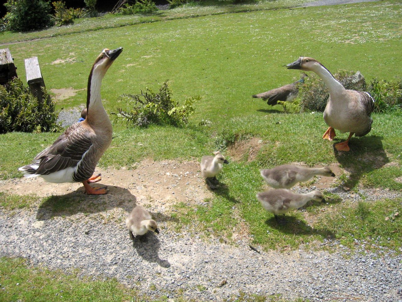 A family of Chinese geese at Staglands Wildlife Reserve, Wellington, New Zealand. The parents were hissing and protecting the goslings.